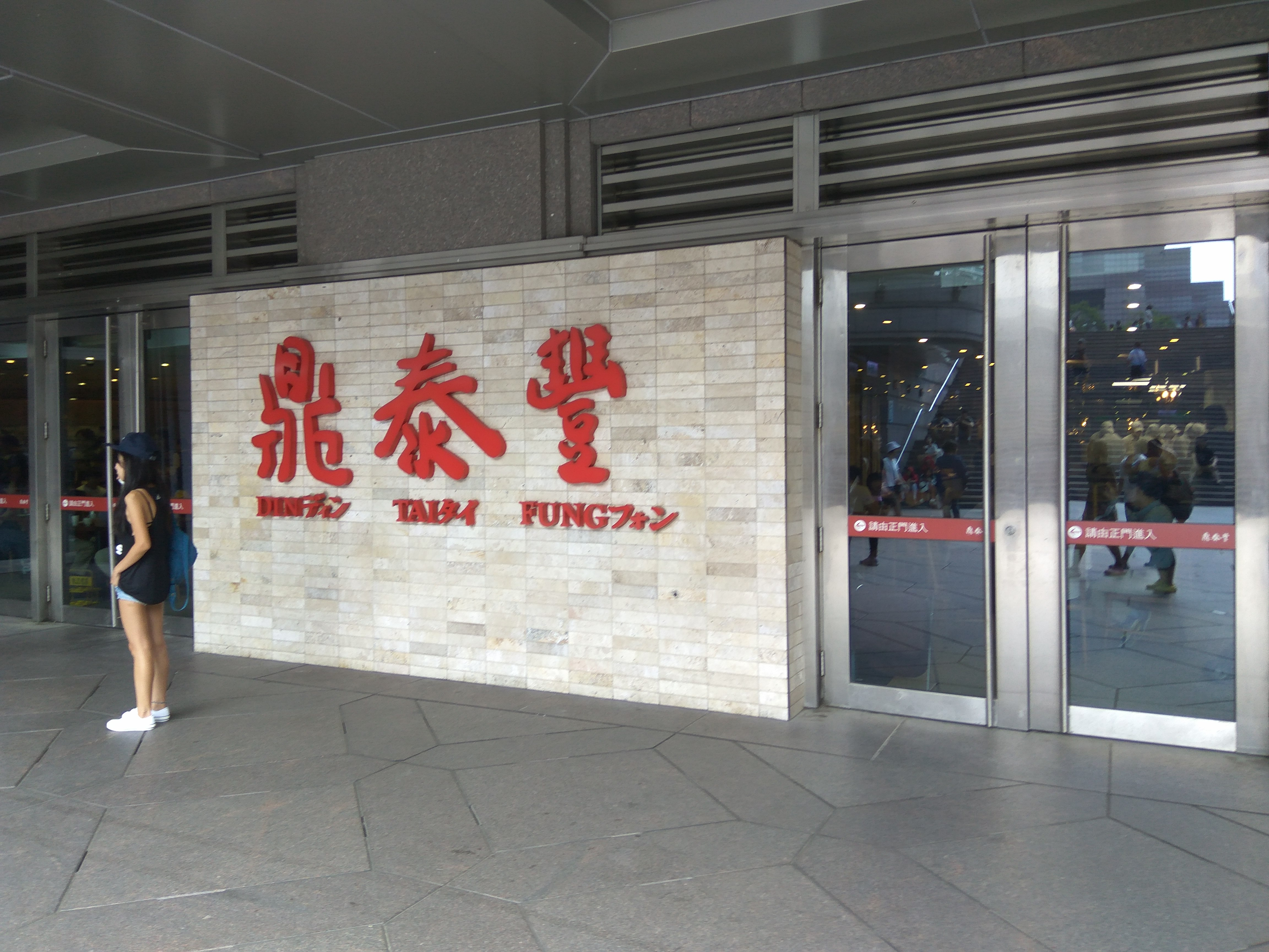 Taipei 101 Store of Din Tai Fung at Taipei 101 Mall B1.